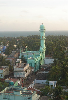 Pudumadam Mid Jamath